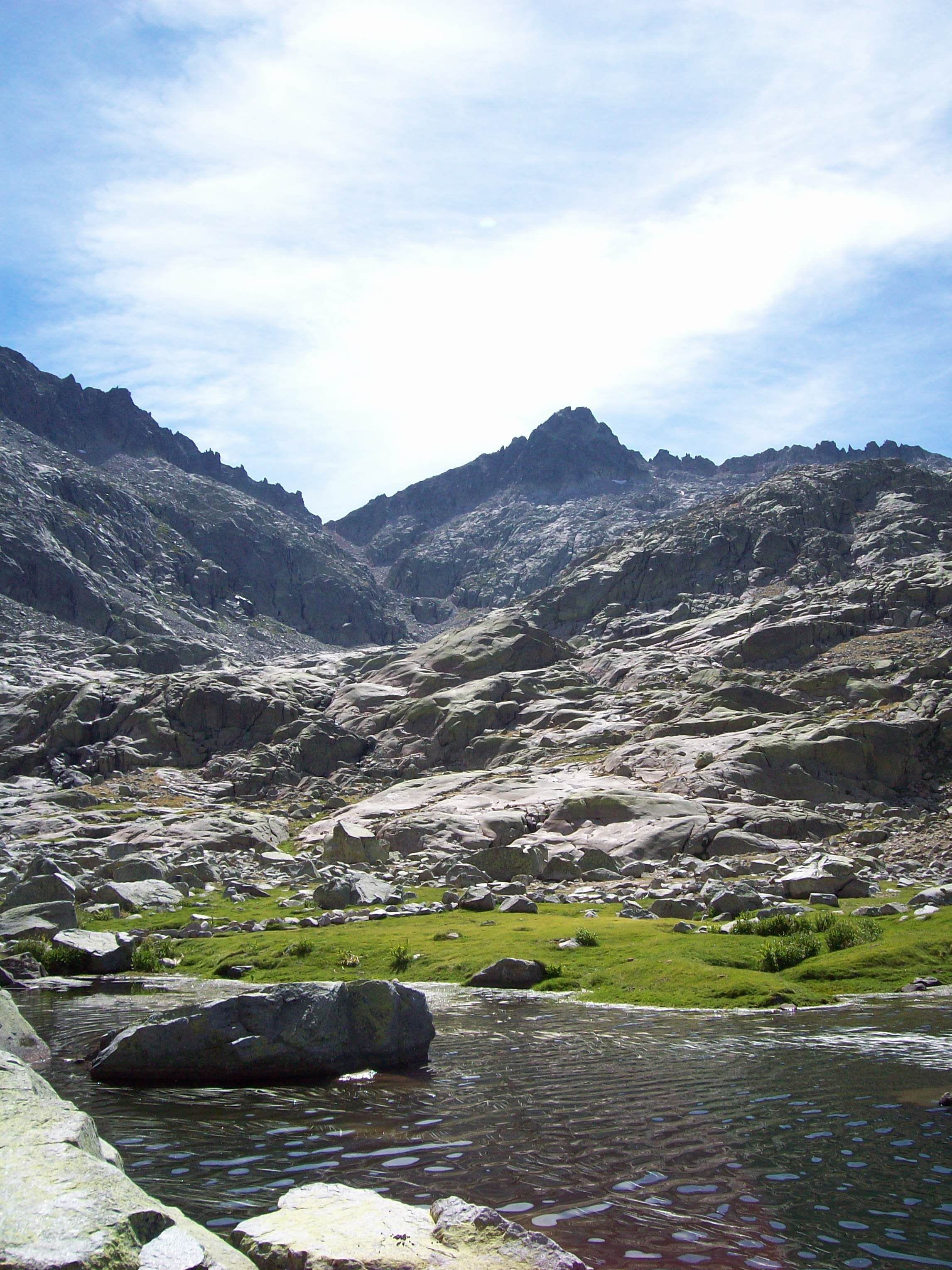 Pico Almanzor and Laguna Grande of Gredos, Ávila, Castile and León, Spain.